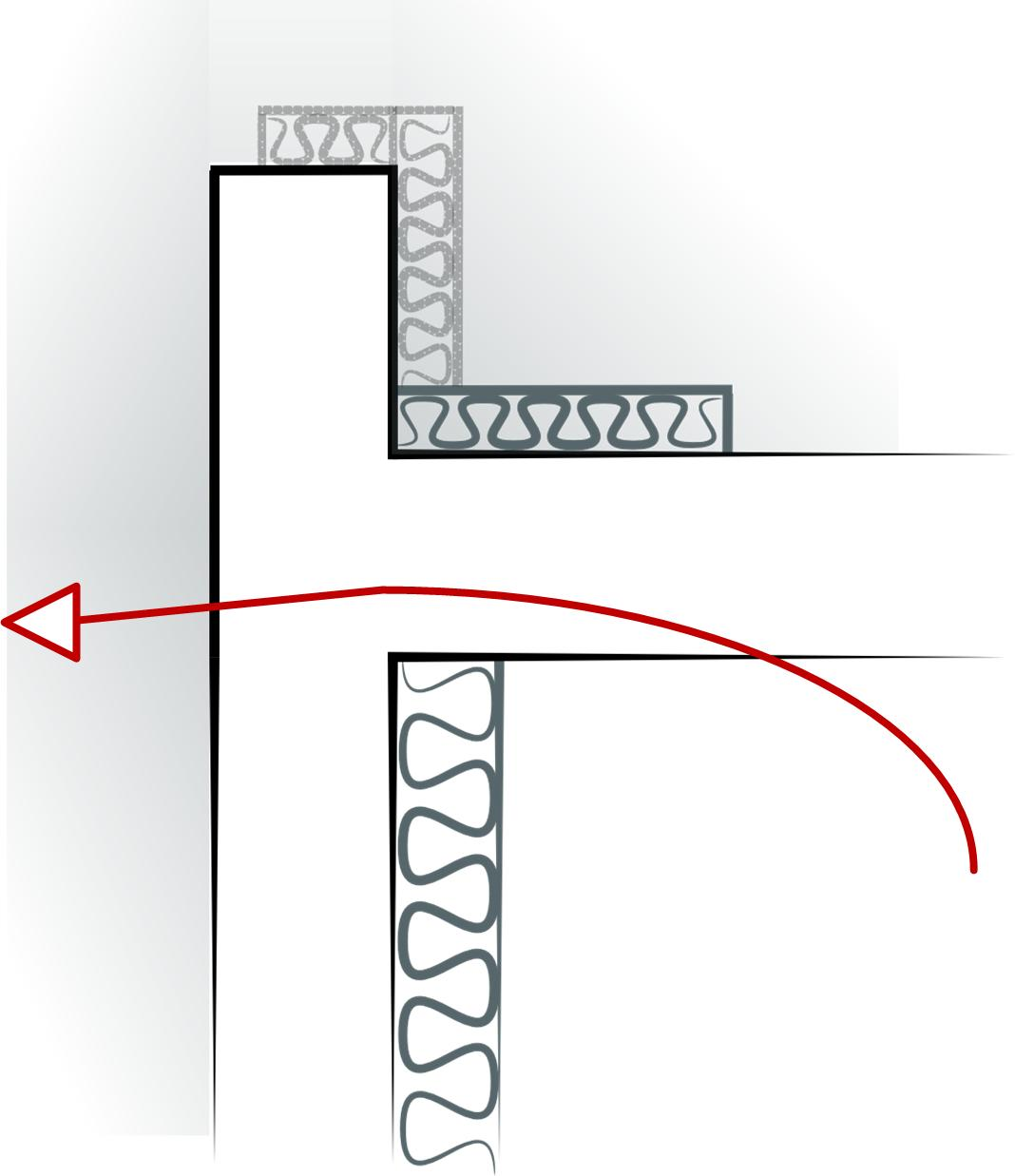 pont thermique à la Jonction plancher haut-mur extérieur 2